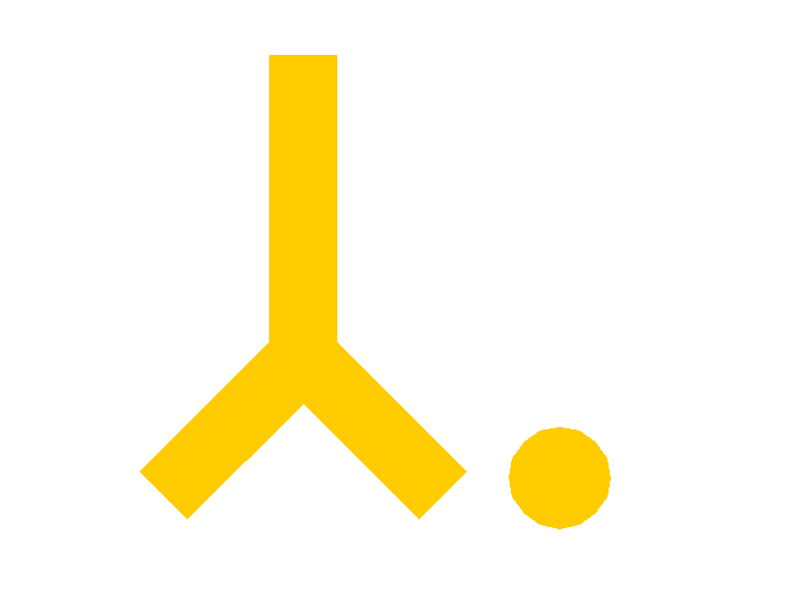 Mark of Ww2 GermanDivision Panzer 5 - 1940